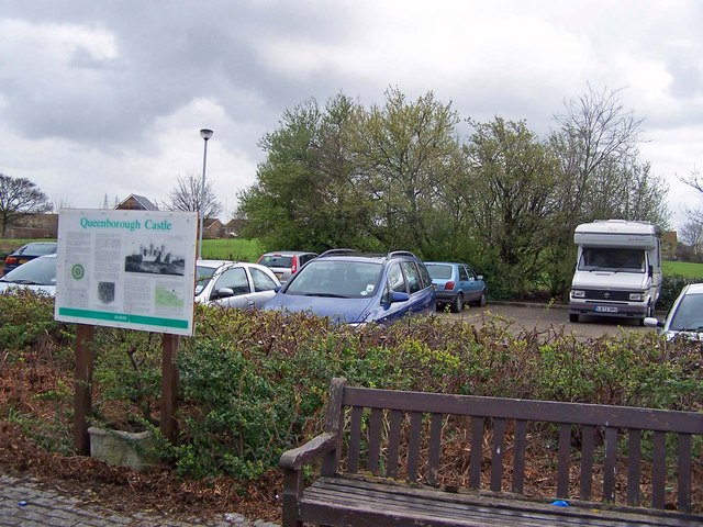 Site of Queenborough Castle There is a sign, a car park and a grassy mound to indicate the original site of Edward III's important castle, built in 1366. A plaque set in the ground at the top of the mound (behind the bushes in this picture) reads "Site of pump house with two wells 275ft deep".